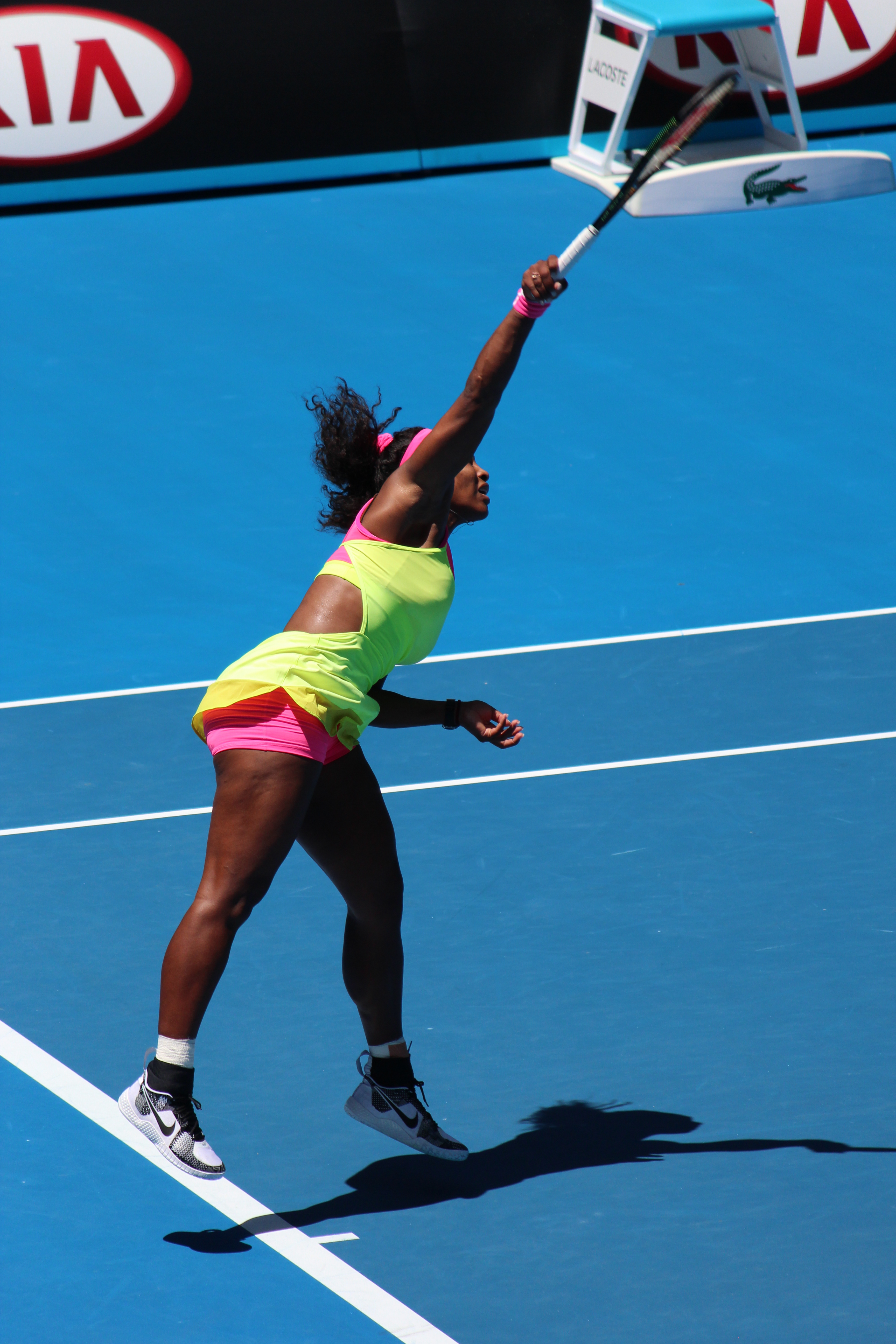 Serena Williams serves at the Australian Open in 2015.